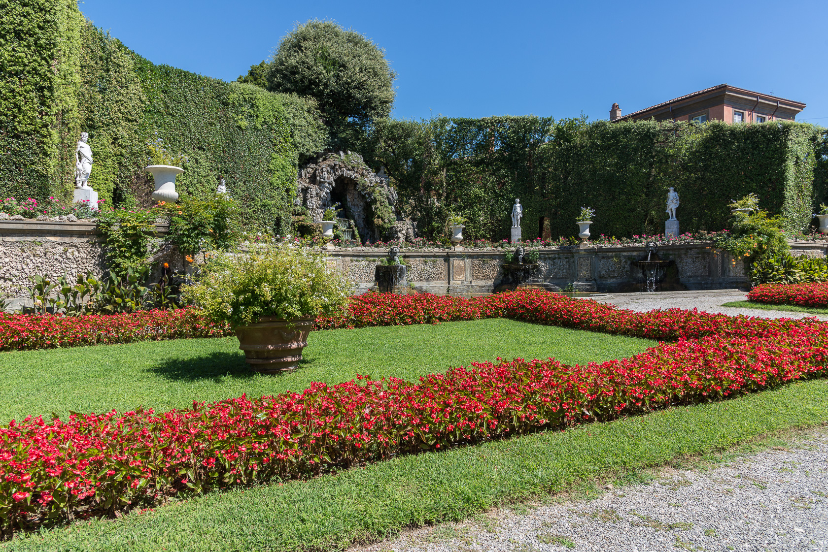 Water Theatre of Villa Reale, Lucca TUSCANY